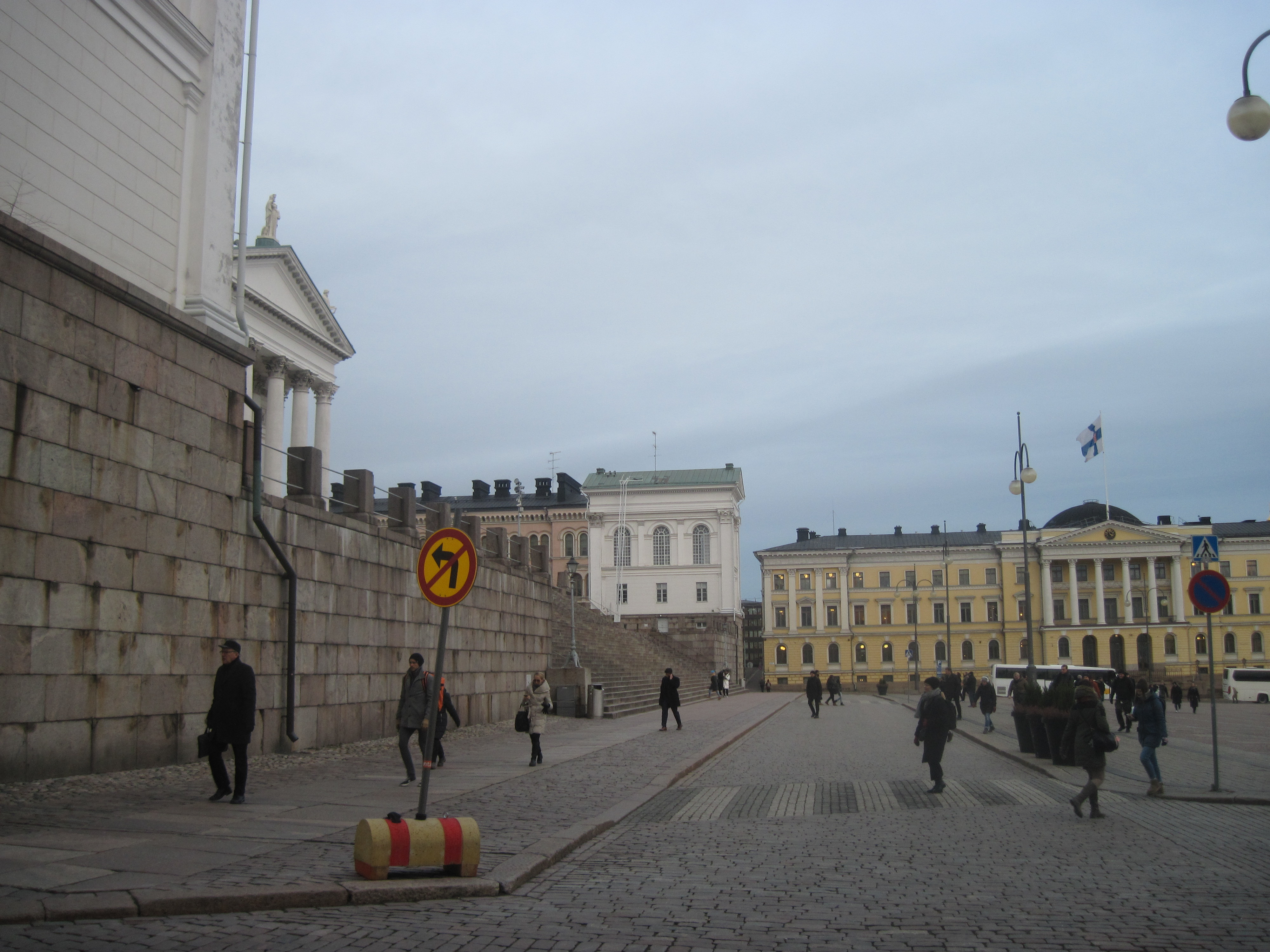 Hallituskatu on the Northern border of Senaatintori in Helsinki, Finland